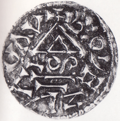 Denarius of Boleslav I Bohemian